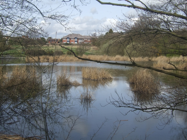 Fishing pool in the Forest of Mercia On the fringe of the Forest of Mercia this land was formerly a colliery tip.